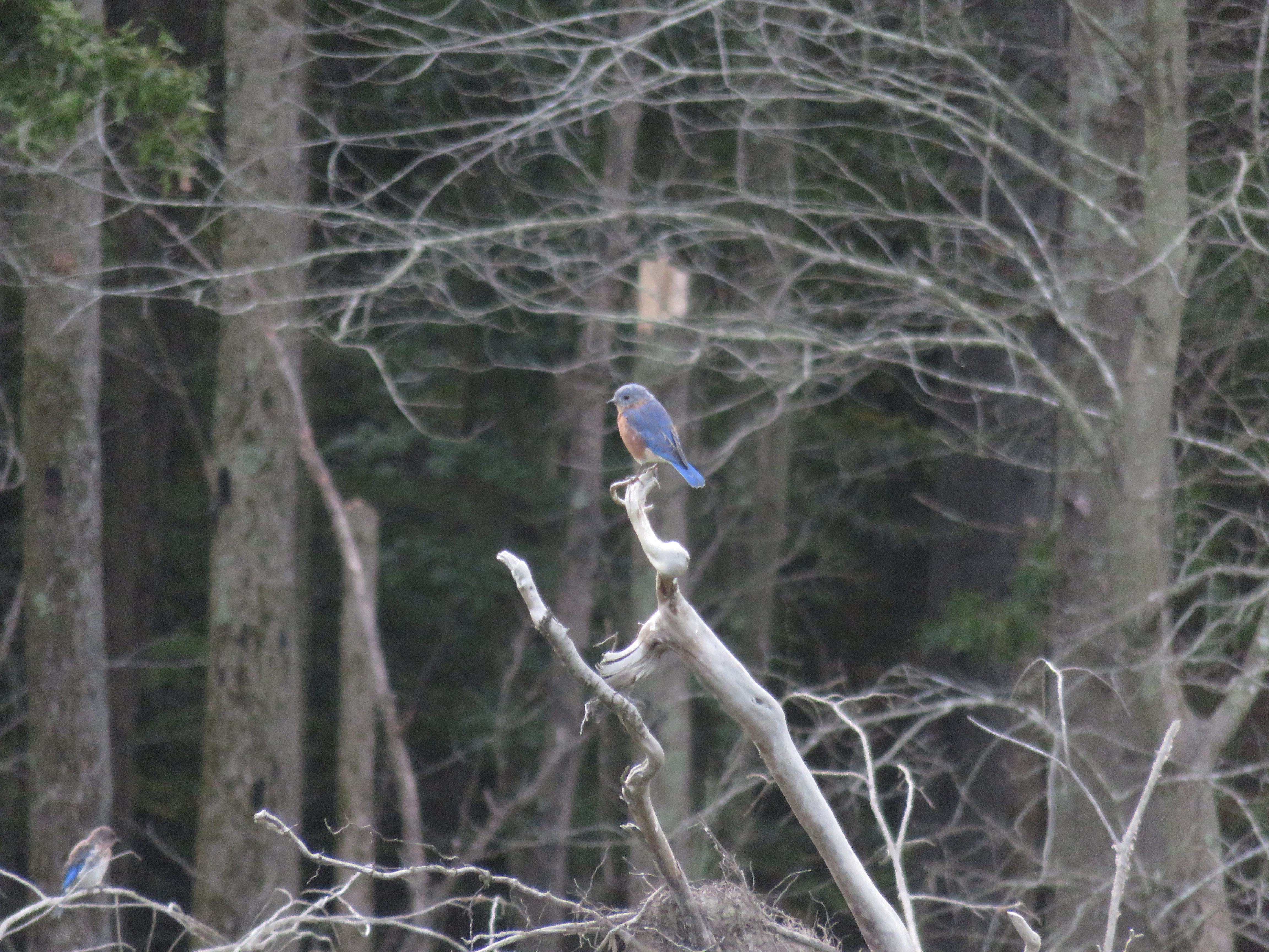 Two eastern bluebirds in Huntley Meadows Park, Virginia, United States